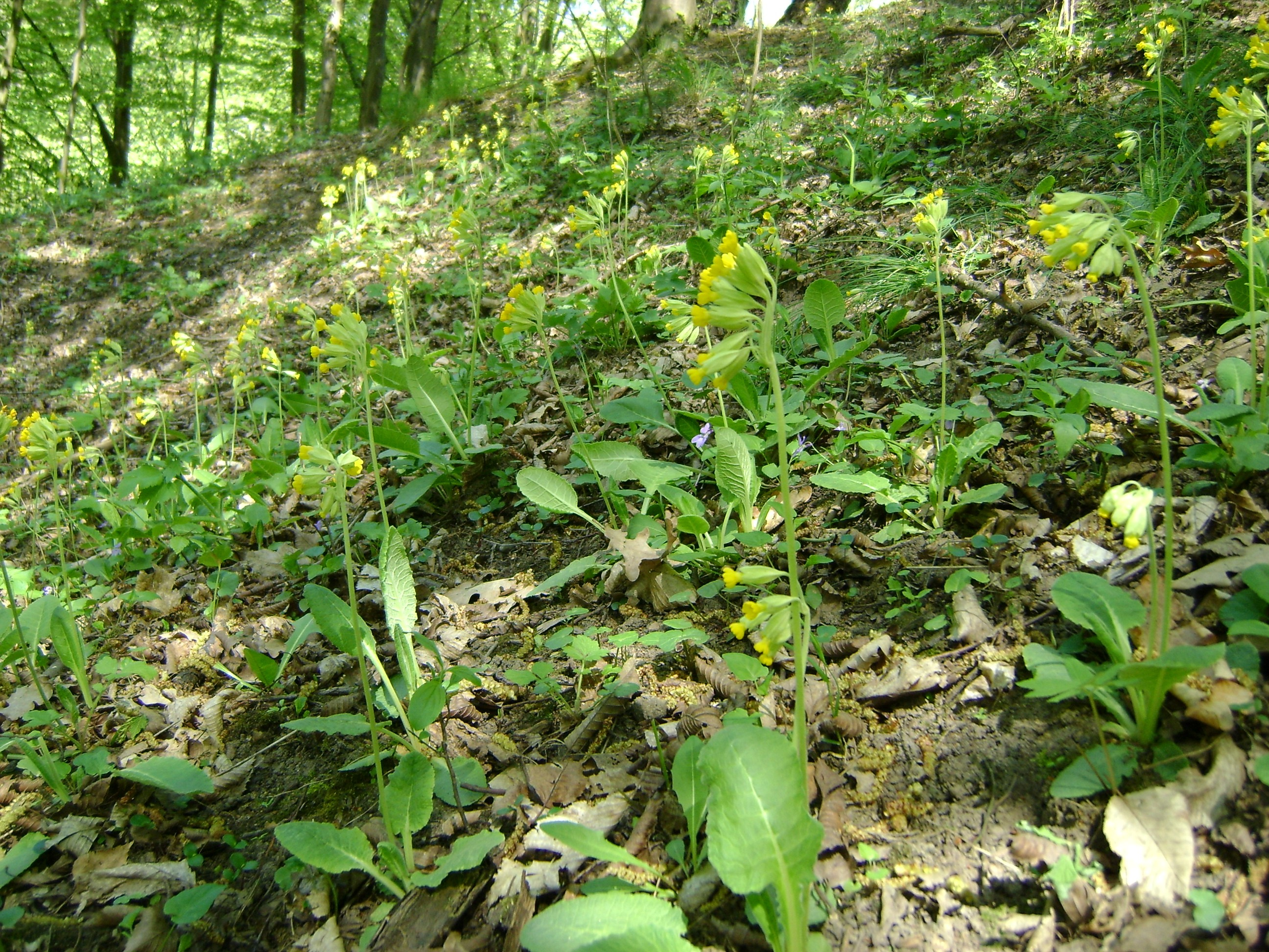 Primula veris. Recz (NW Poland)